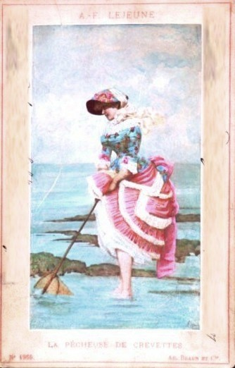 Shrimp fishing outfit